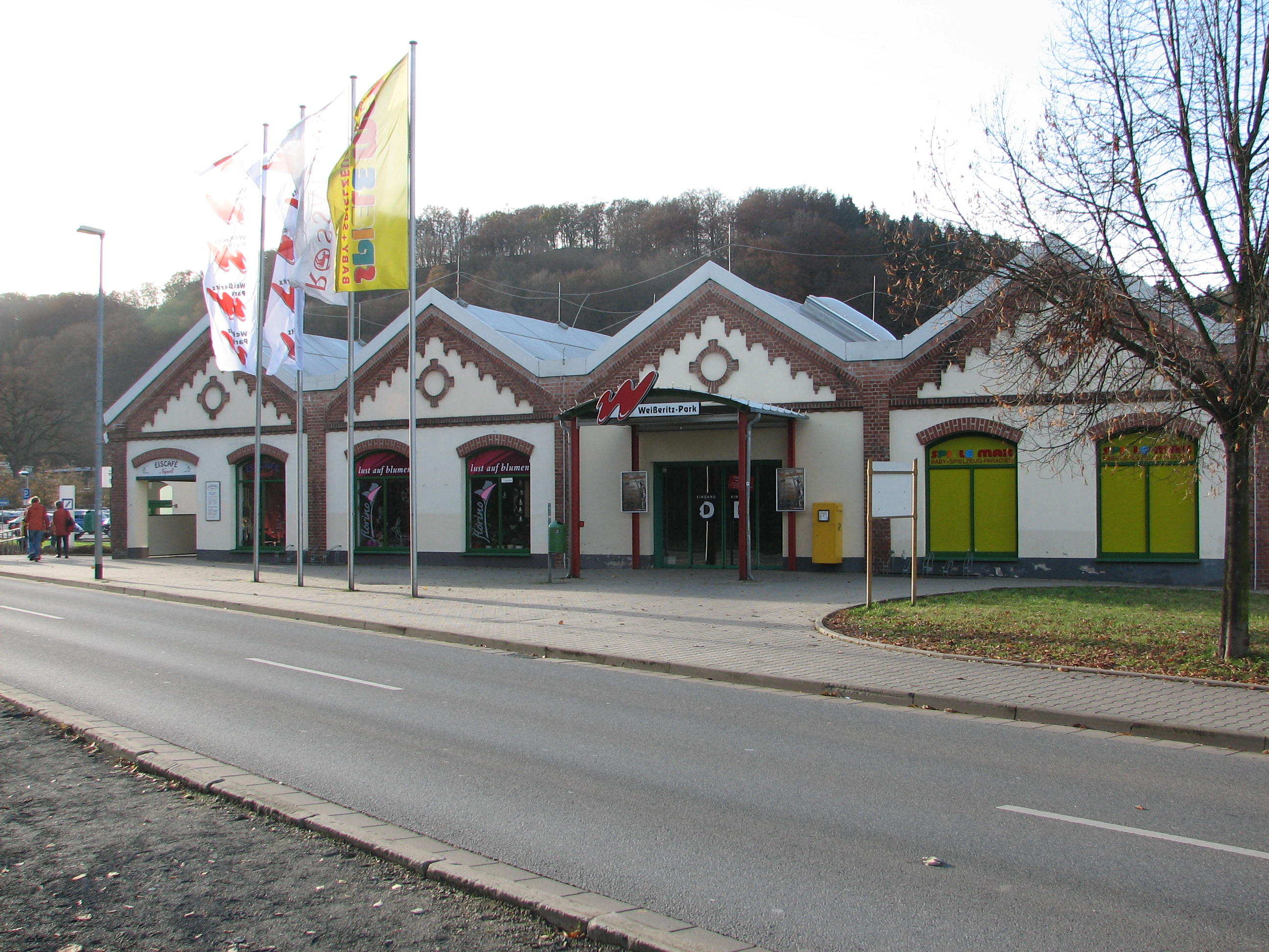 Main entrance of the Weißeritz-Park.